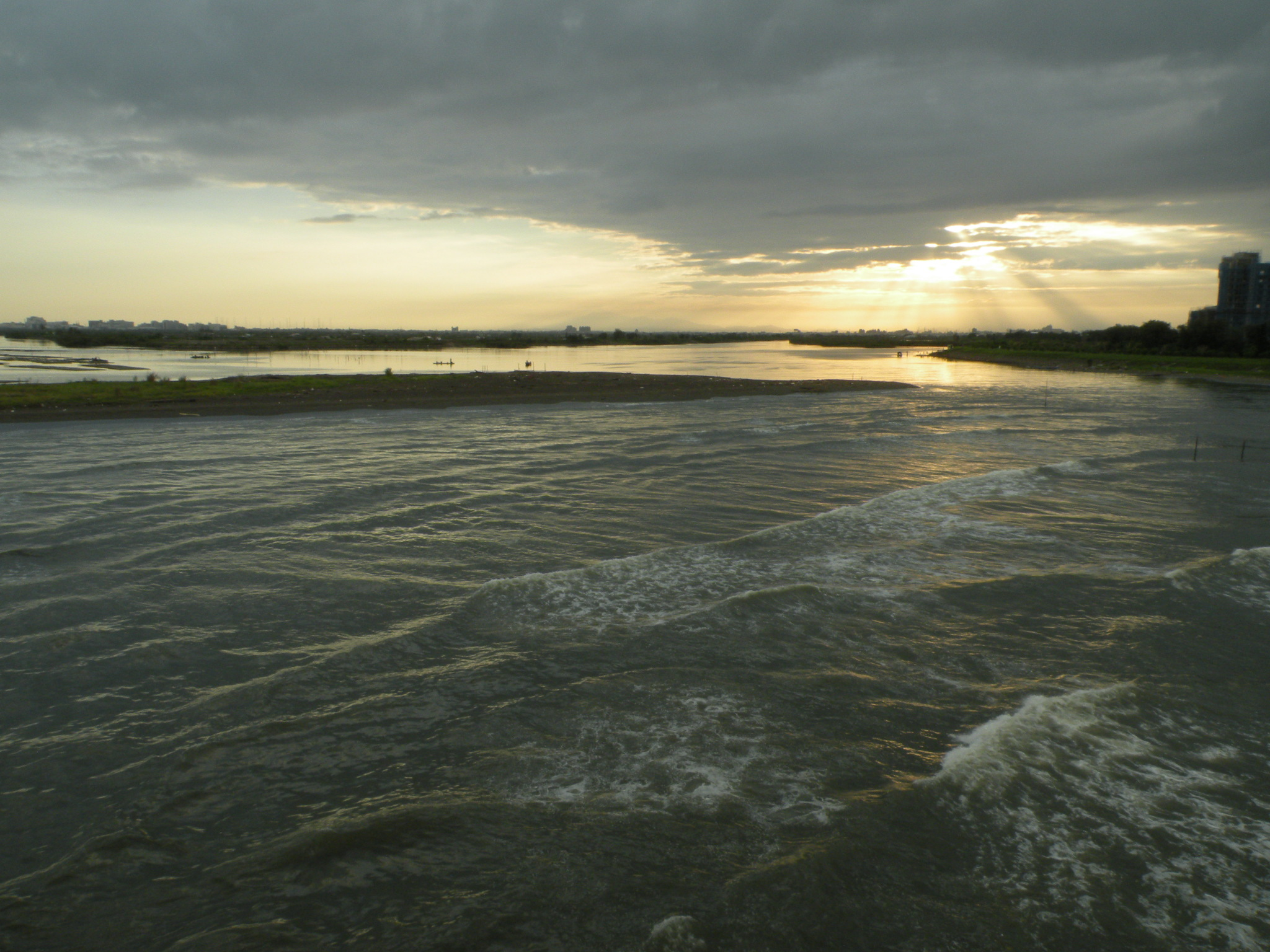 Marine outfall of Yanshuei Rive(鹽水溪), Tainan, Taiwan